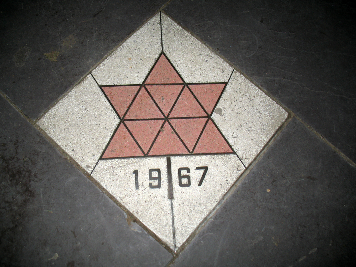 Centennial symbol at Rosehill Reservoir, April 22, 2010